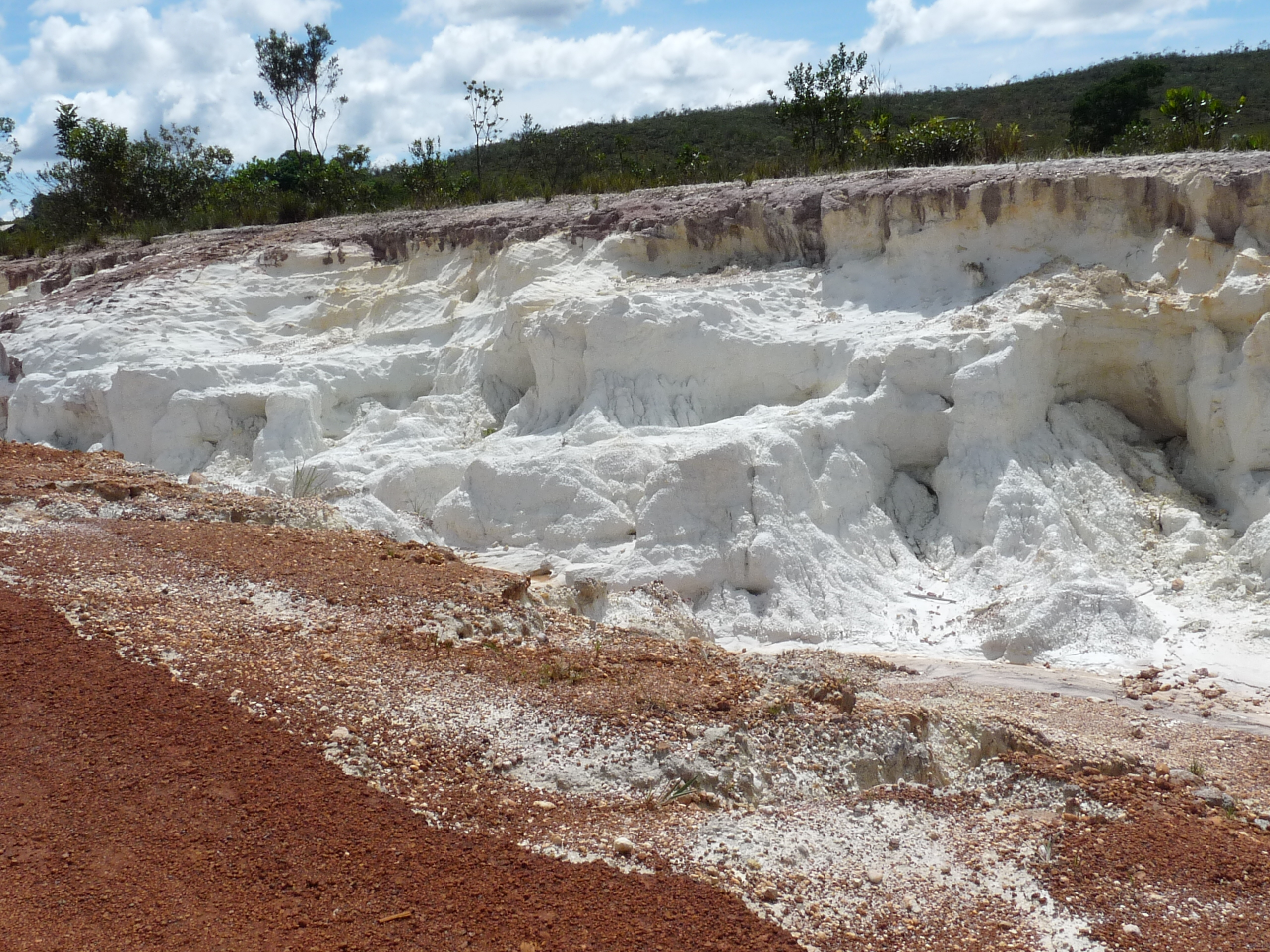 A primary deposit of kaolin (white clay) near Cantarrana in Bolivar state, Venezuela. The kaolin was formed by the alteration of feldspar crystals of the mainly granitic basement rocks of the Guiana Shield.